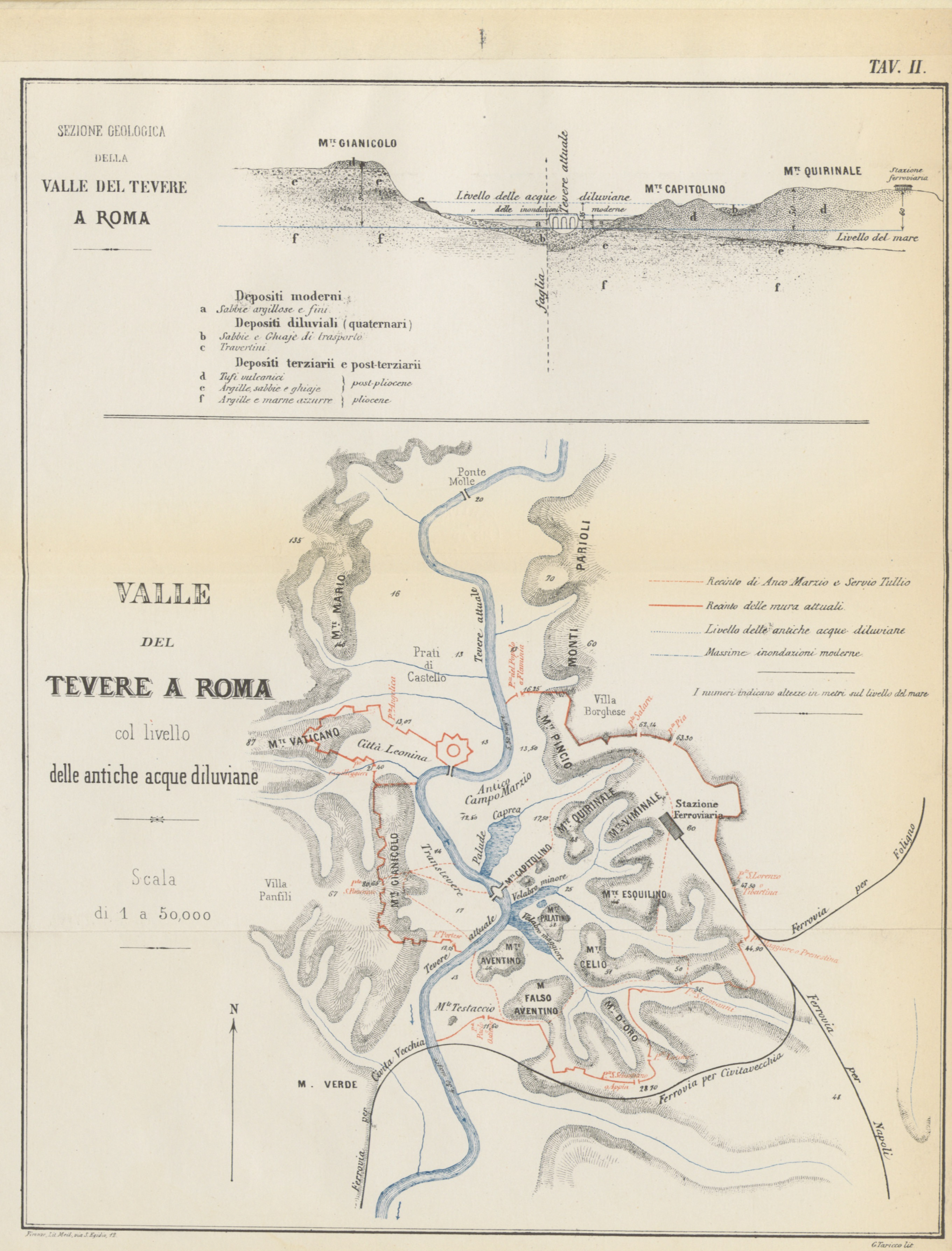 View this map on the BL Georeferencer service. Image taken from: Title: "Cenni sulle condizioni fisico-economiche di Roma e suo territorio" Author: GIORDANO, Felice. Shelfmark: "British Library HMNTS 10132.k.29." Page: 247 Place of Publishing: Firenze Date of Publishing: 1871 Issuance: monographic Identifier: 001428405 Explore: Find this item in the British Library catalogue, 'Explore'. Download the PDF for this book (volume: 0) Image found on book scan 247 (NB not necessarily a page number) Download the OCR-derived text for this volume: (plain text) or (json) Click here to see all the illustrations in this book and click here to browse other illustrations published in books in the same year. Order a higher quality version from here.